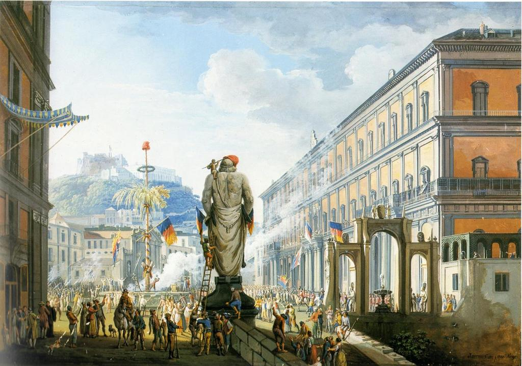 Naples, Revolution of 1799: view from Largo di Palazzo (Piazza del Plebiscito) to Vomero hill (San Martino)